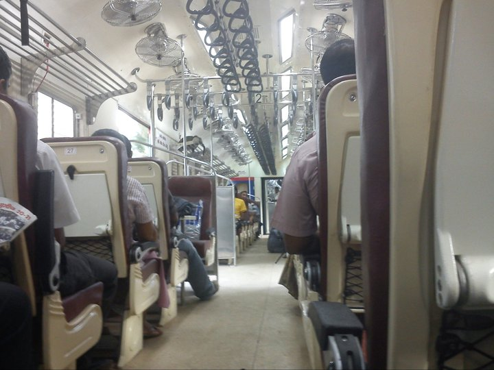 accomodation second class class s11